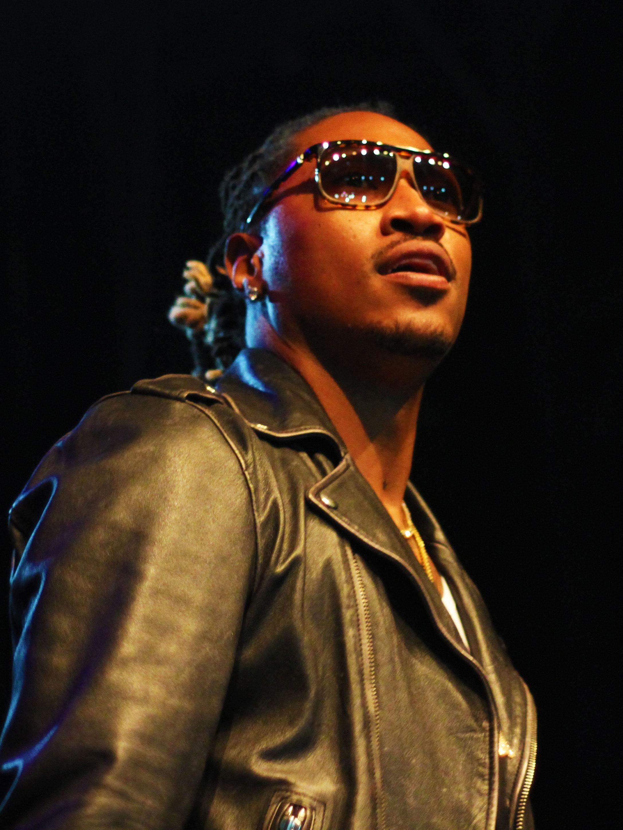 Future on the Honest Tour at Sound Academy in Toronto on July 11, 2014.